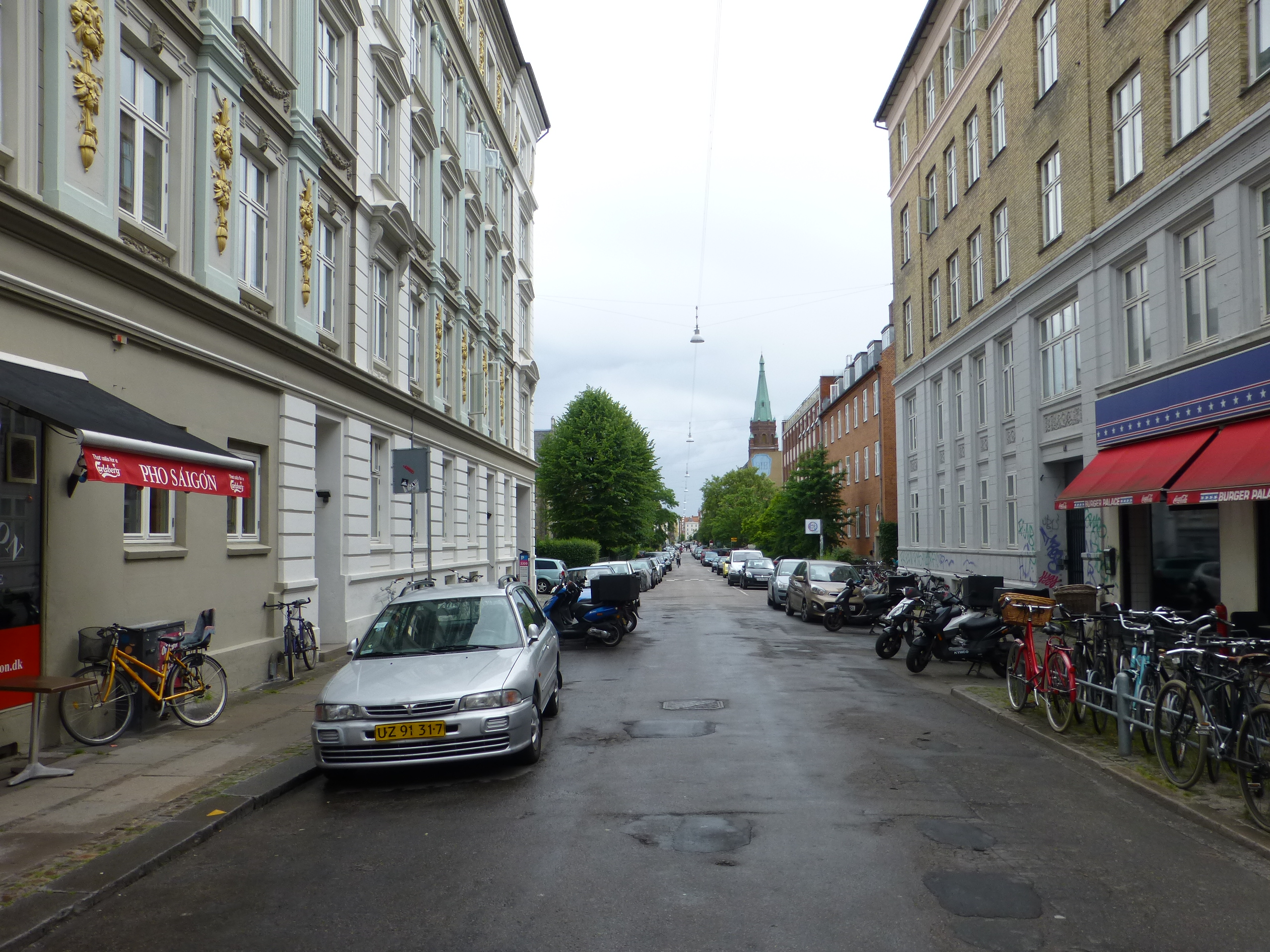 The street Valdemarsgade in Vesterbro in Copenhagen.